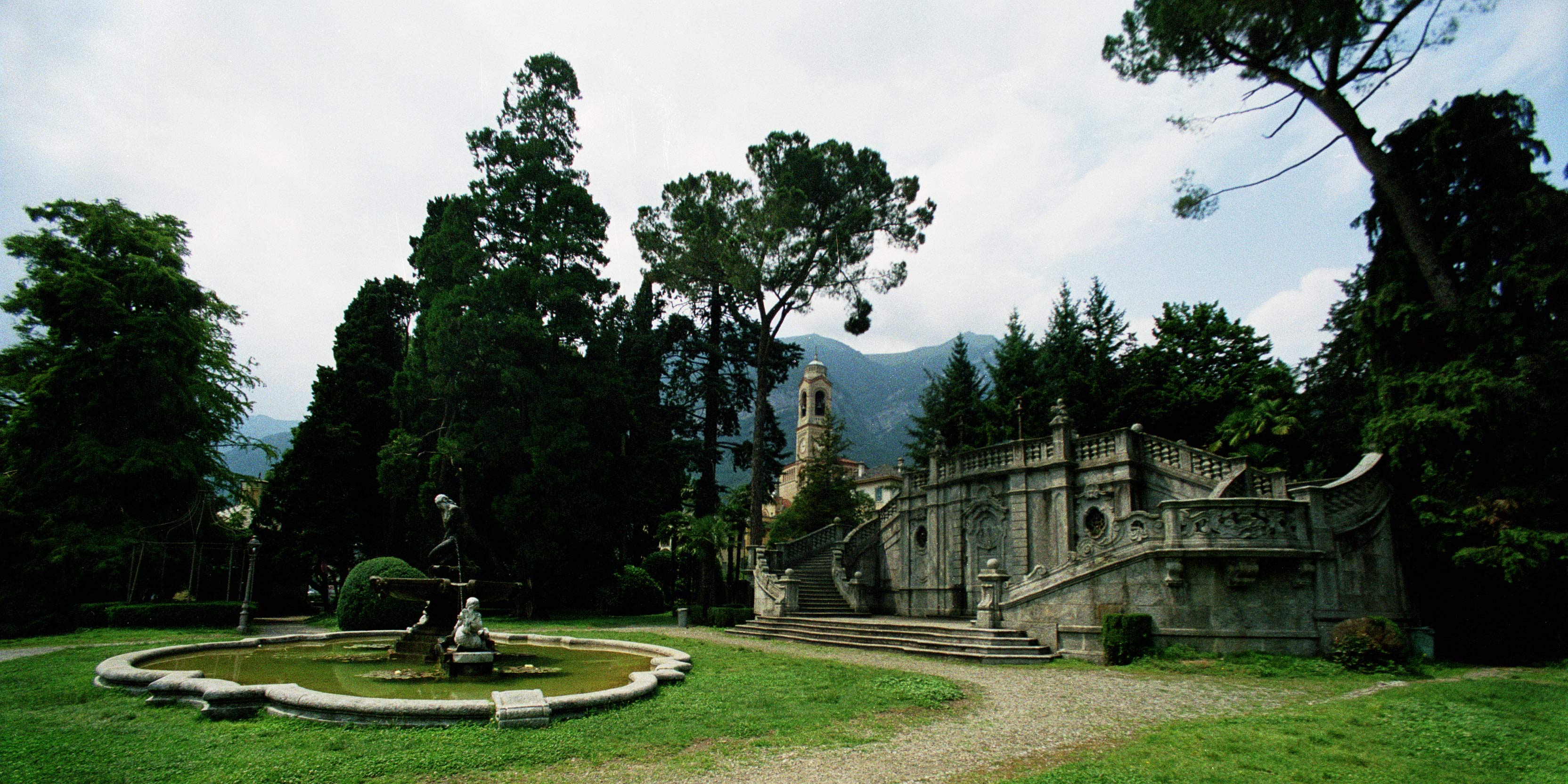 Photograph of the public gardens in Tremezzo on Lago di Como, Italy. The lakeside garden, also known as the Parco Meier, was designed by the locally born architect Pietro Lingeri (1894–1968) as part of the project of reconstructing the eighteenth-century Villa Hortensia (owned by Roberto Meier) following a 1919 fire. For the gardens in the Italian manner he made reference, in a rococò key, to those of the Villa Colonna at Rome. (See: [1]